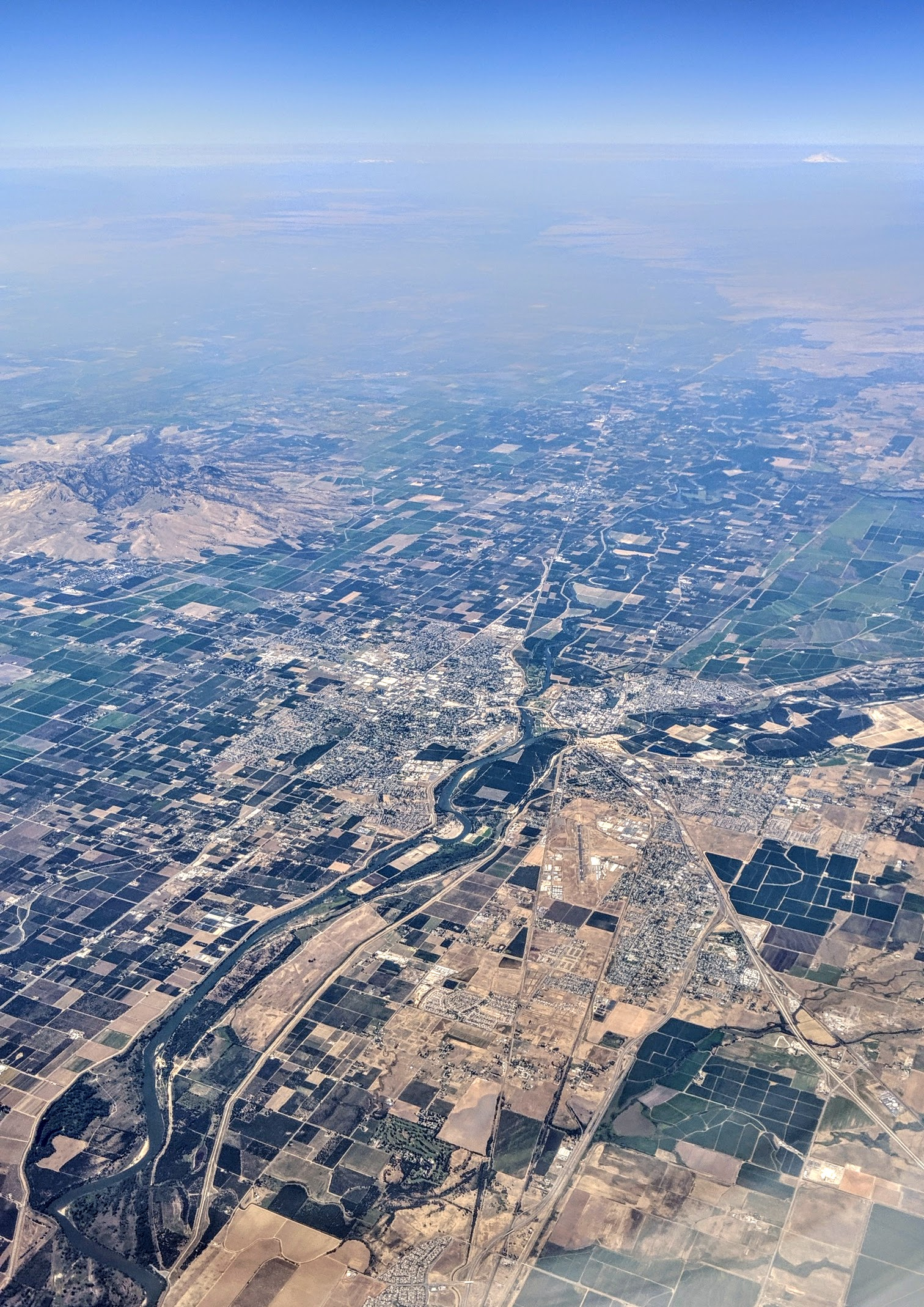 Yuba City and Feather River aerial view from the south, summer of 2019